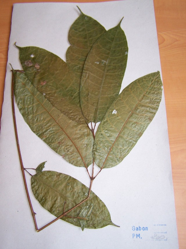 Specimen of gaboon (okoume)